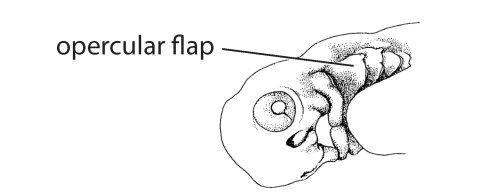 Standard Event System character depiction